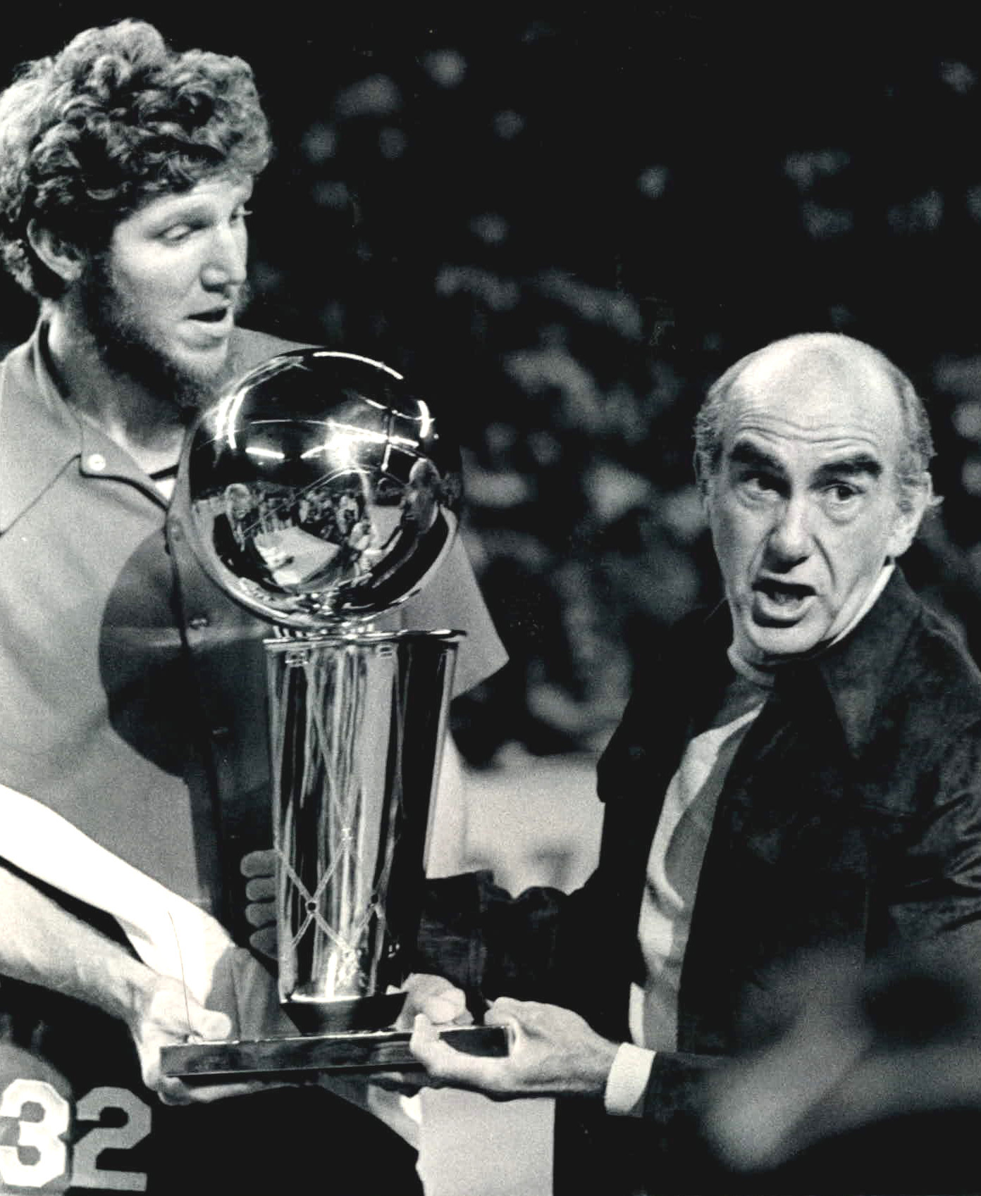 Bill Walton (left) and Jack Ramsay (right) after the Portland Trail Blazers won the 1977 NBA Finals.